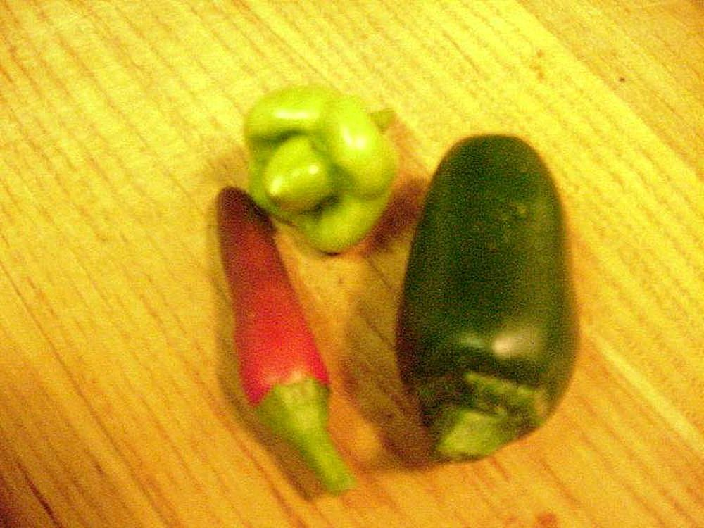 Image title: Caribbean habaneros serranos chilies peppers Image from Public domain images website